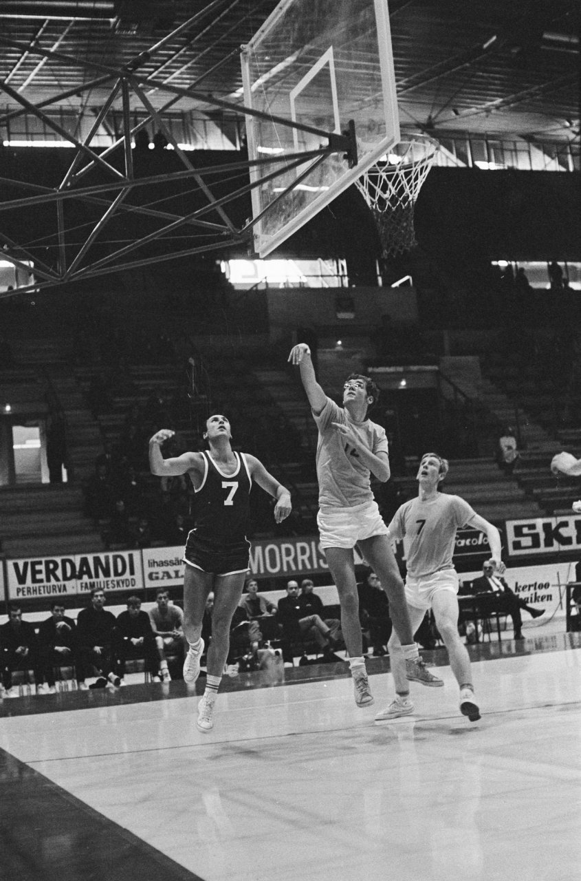 European basketball championship 1968 in Helsinki, Belgium vs the Netherlands